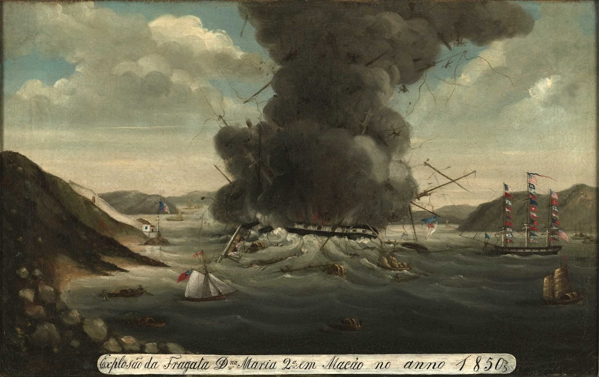 The incident happened on 29 October 1850.